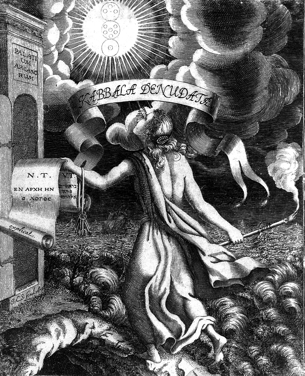 Christian Knorr von Rosenroth, Kabbala denudata. Rare Books Keywords: Christian Knorr von Rosenroth